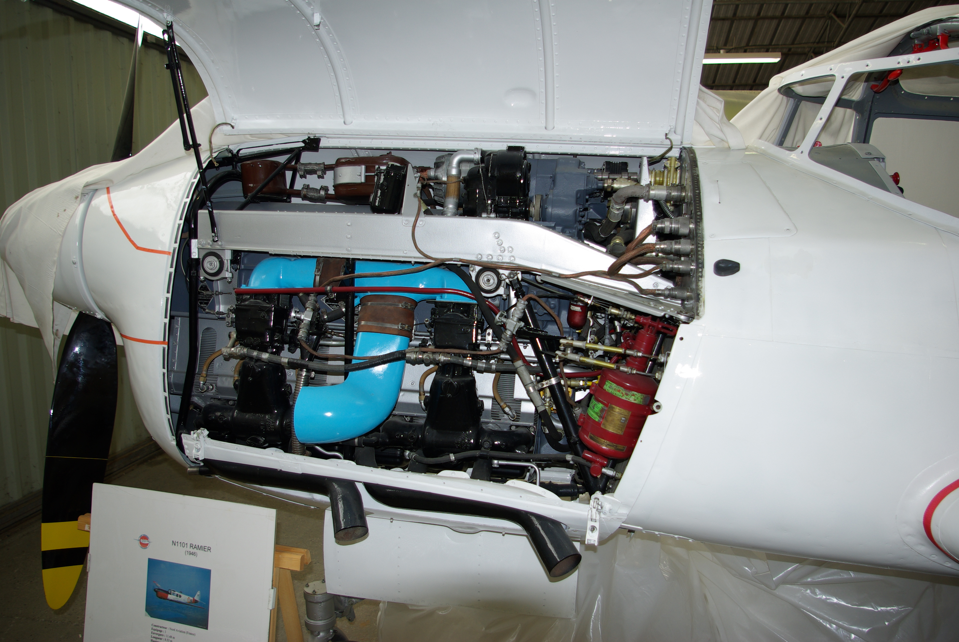 The engine Renault 6Q10 of a Nord 1101 restaured by the musée des ailes anciennes (Toulouse, France)